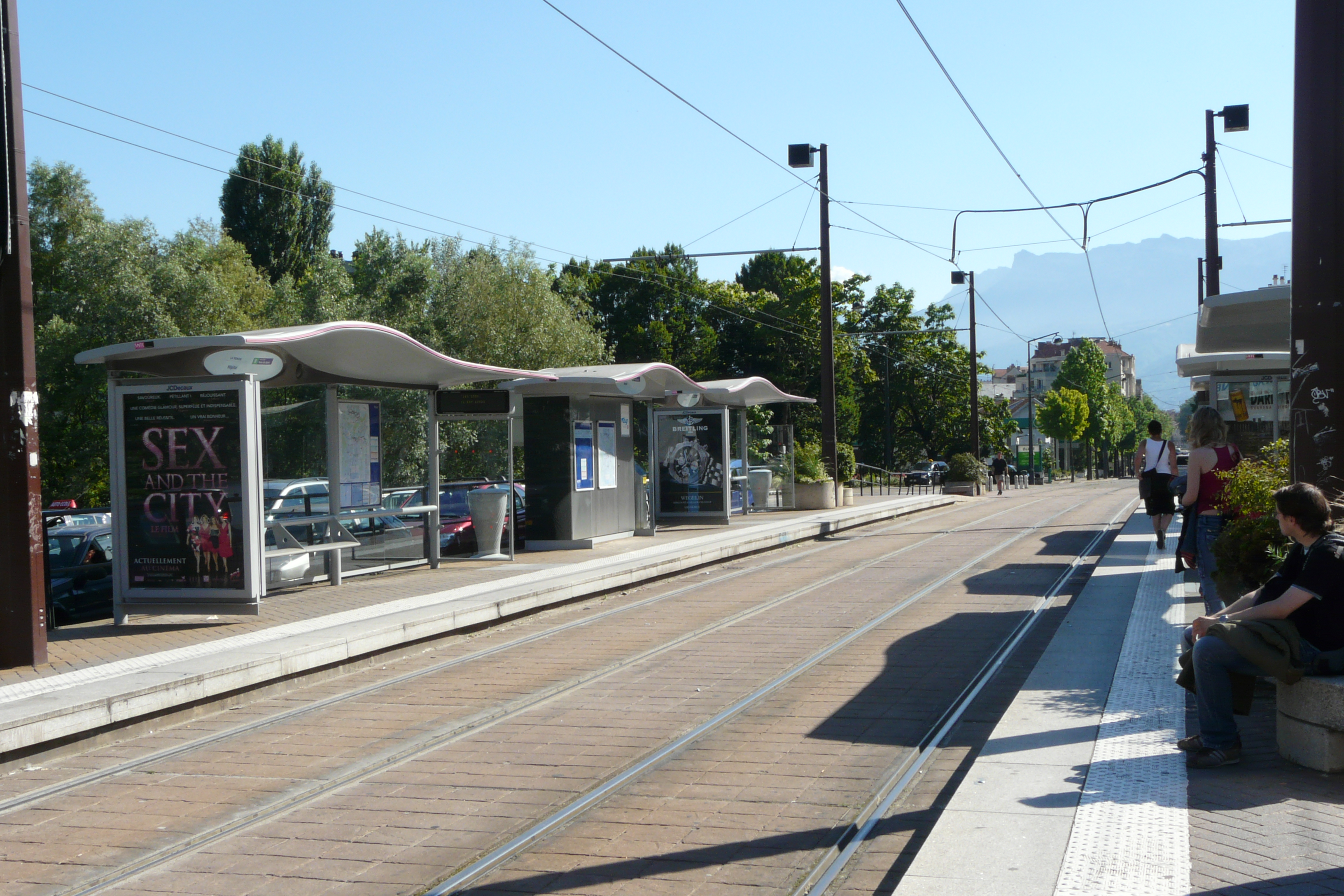 Tram Station La Tronche Hôpital in Grenoble